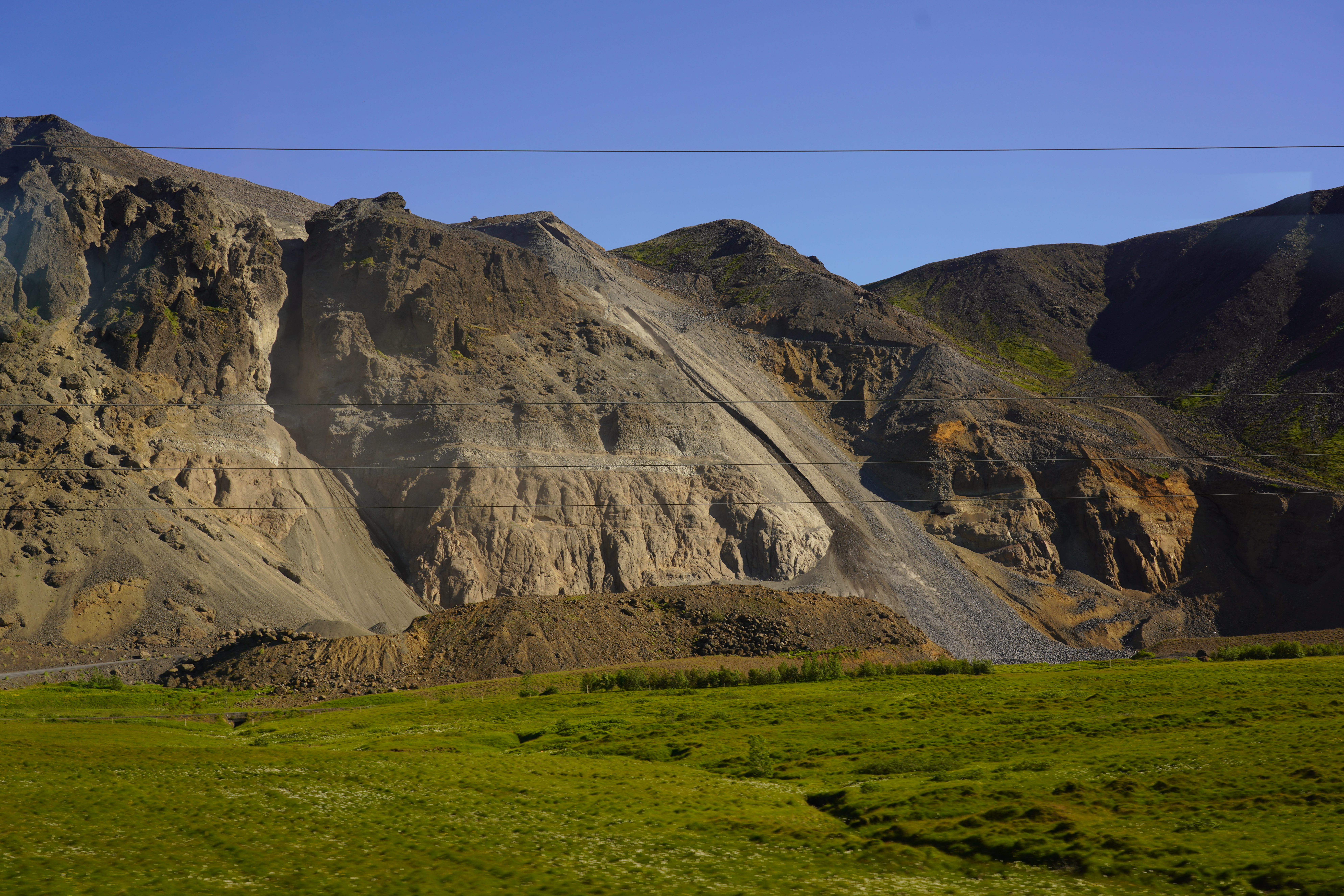 20190622_ThorsmorkHwy_7494